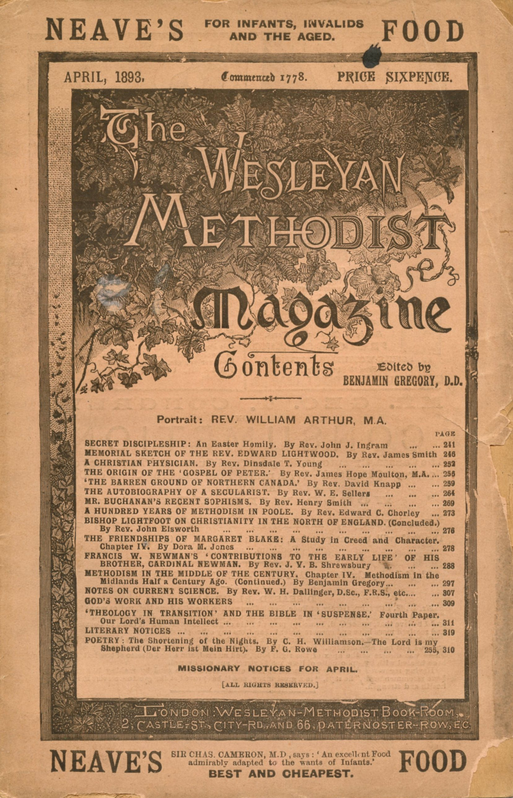 Cover of the April 1893 edition of the Wesleyan Methodist Magazine (UK)